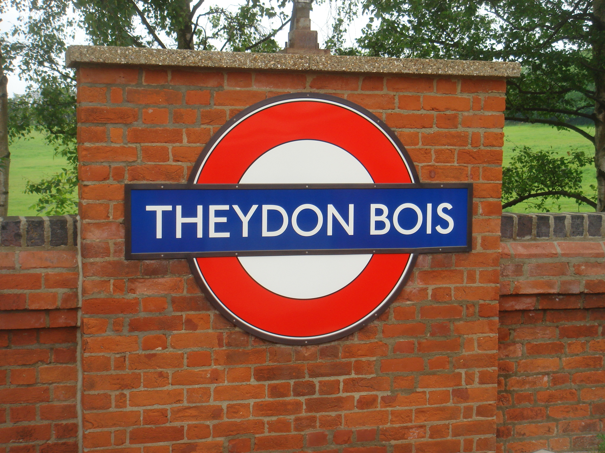 London Underground roundel at Theydon Bois